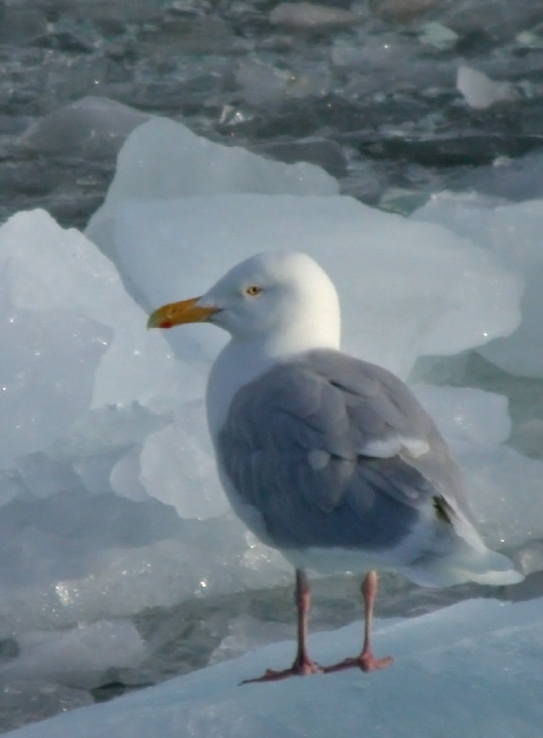 Glacous Gull Larus hyperboreus, Spitzbergen, Norway. The common large gull breeding in the arctic regions. This is a retouched picture, which means that it has been digitally altered from its original version. Modifications: Cropped. The original can be viewed here: Glacous Gull on ice.jpg. Modifications made by Roarjo.